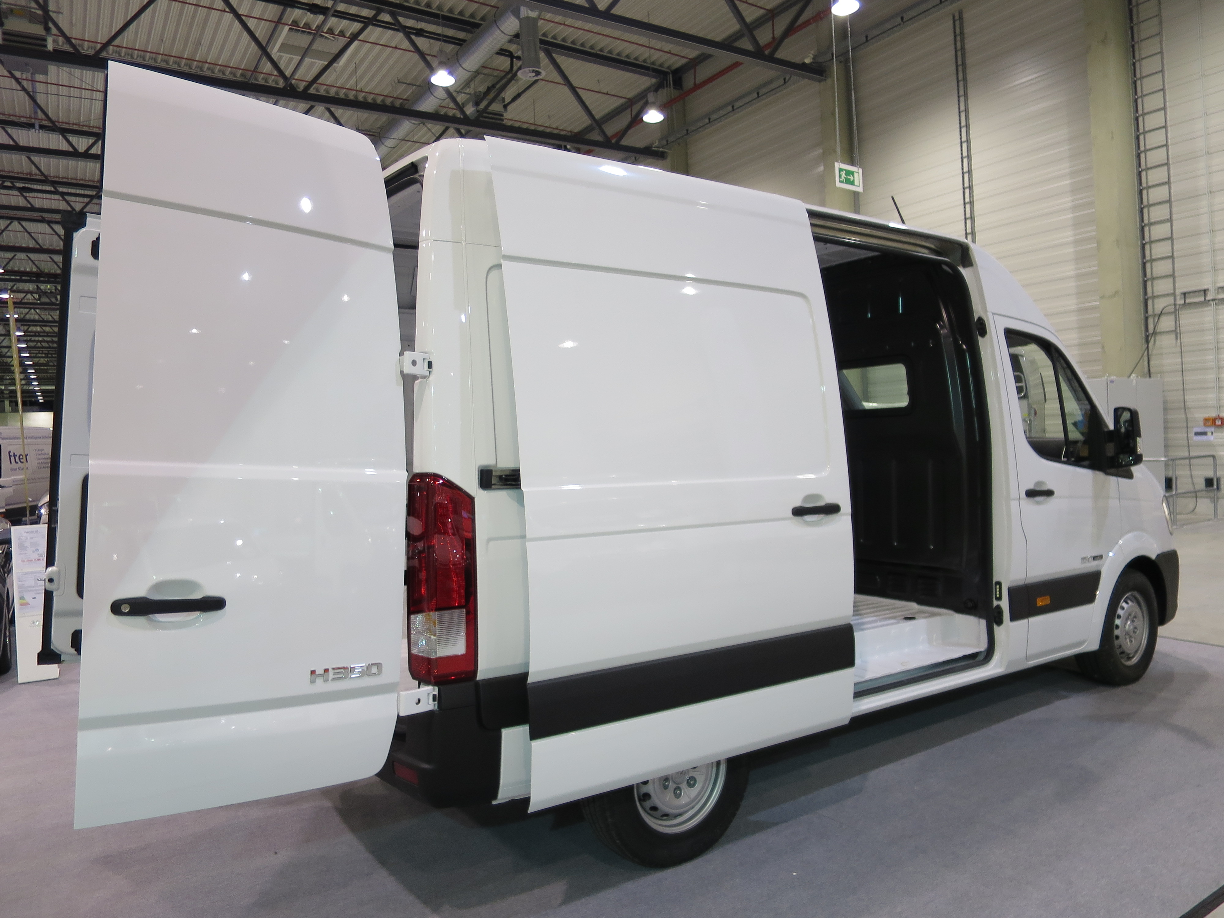 Hyundai H350.